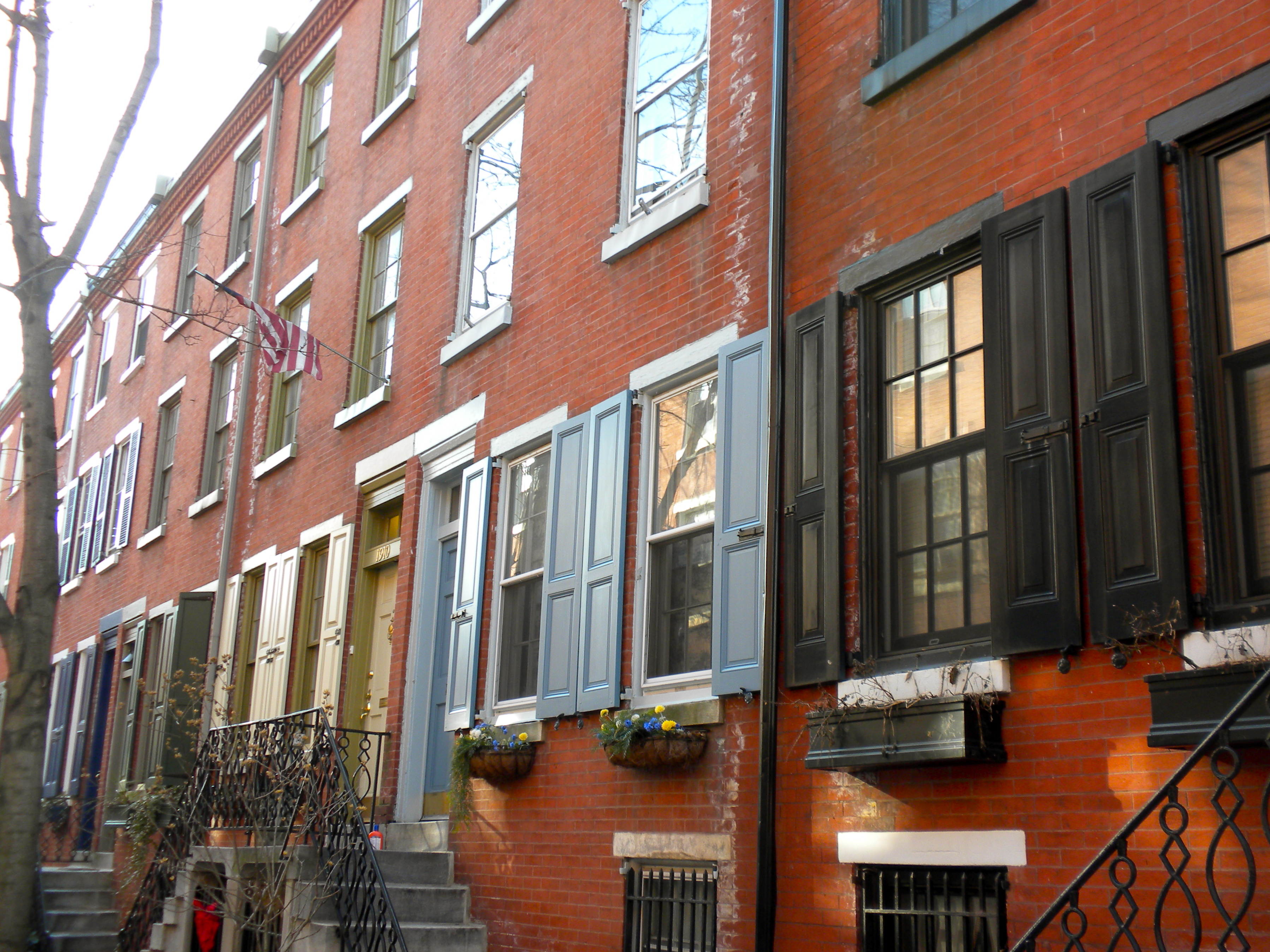 Ringgold Place in Philadelphia. On NRHP since August 29, 1978. At 1900 block of Waverly Street in Rittenhouse Square West neighborhood of Center City.